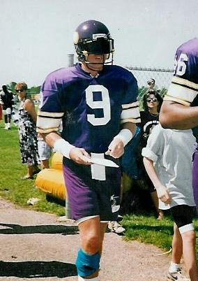 Taken by user and released into the public domain